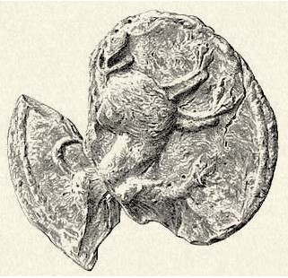 Lev II of Galicia